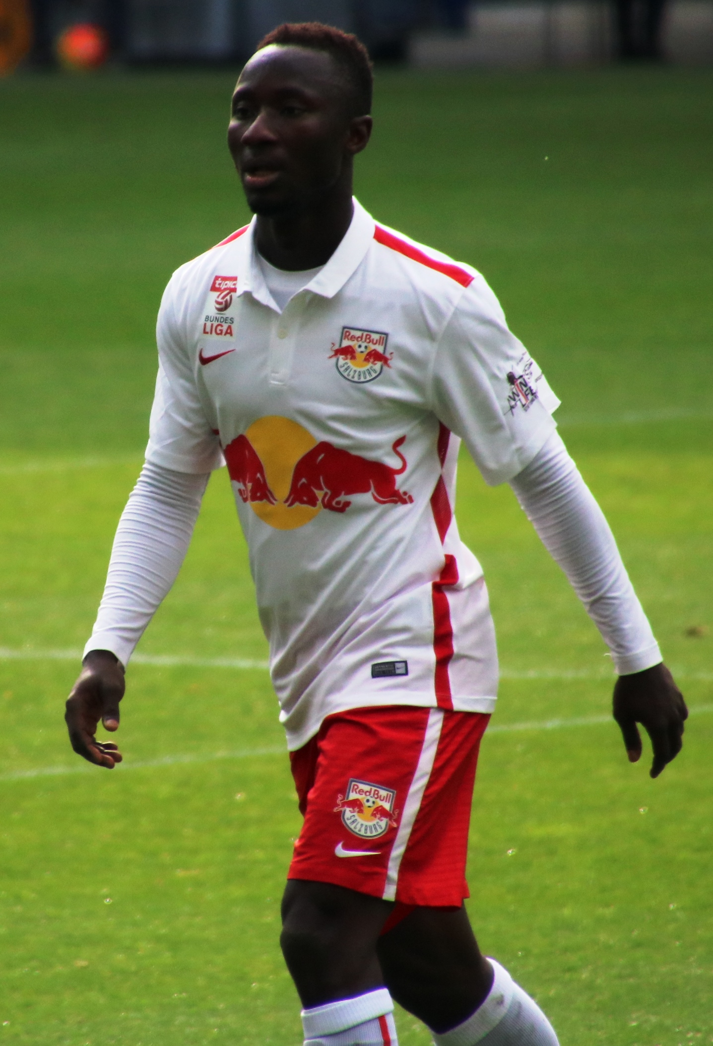 league match Austrian Bundesliga